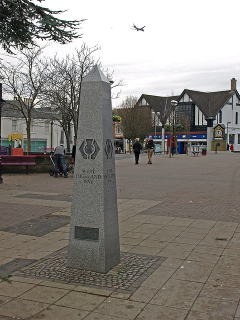 Town Centre, Milngavie